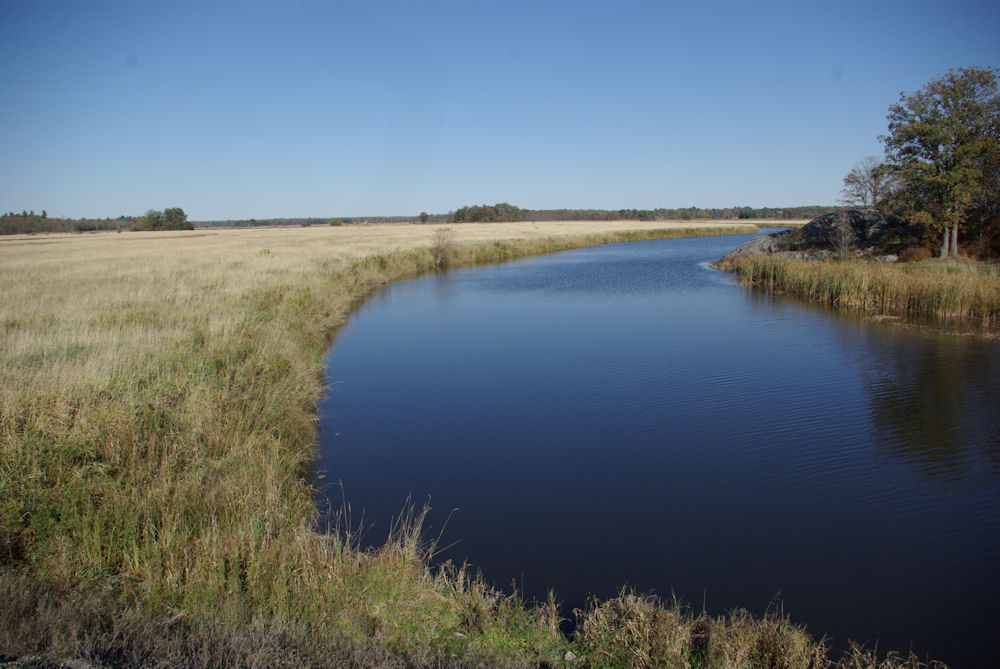 NE of Coldwater, Ontario, 100 miles north of Toronto